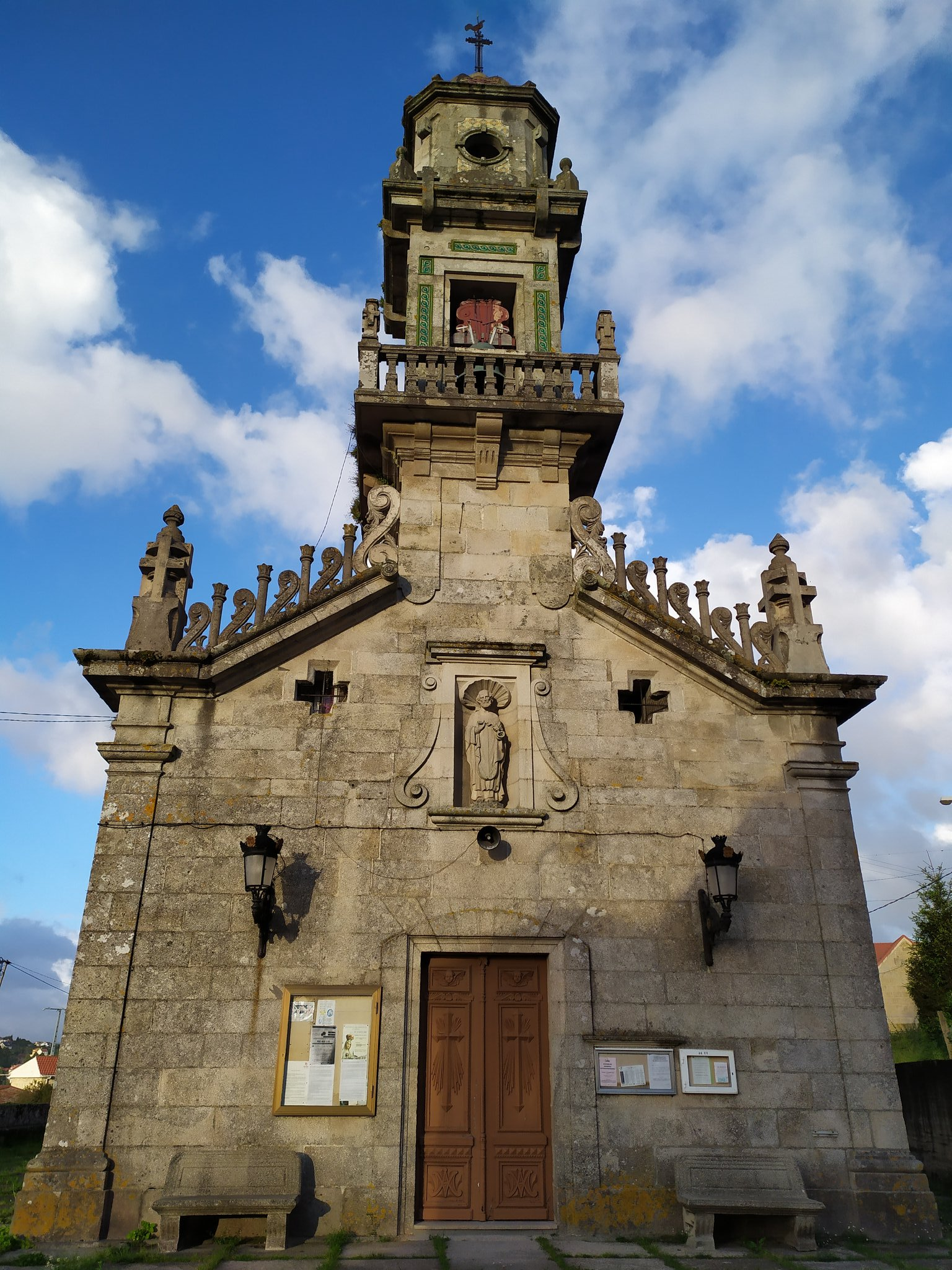 Church of San Pedro de Matamá